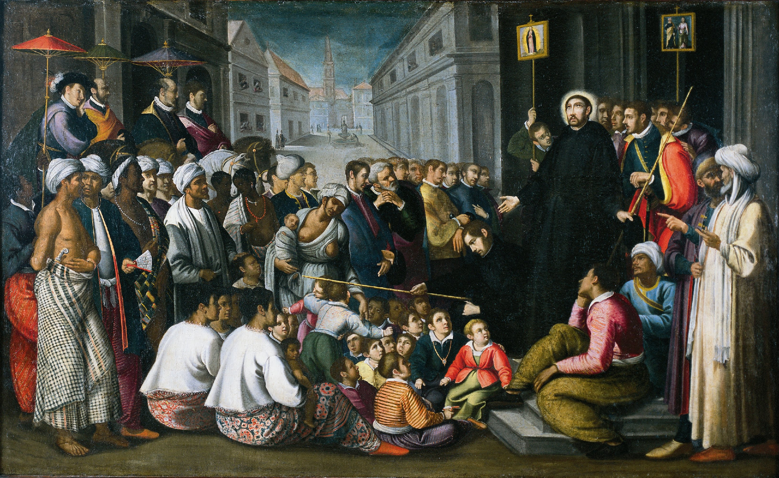 Saint Francis Xavier preaching in Goa, 1610, by André Reinoso. In the collections of the Museu de São Roque, Lisbon, Portugal.